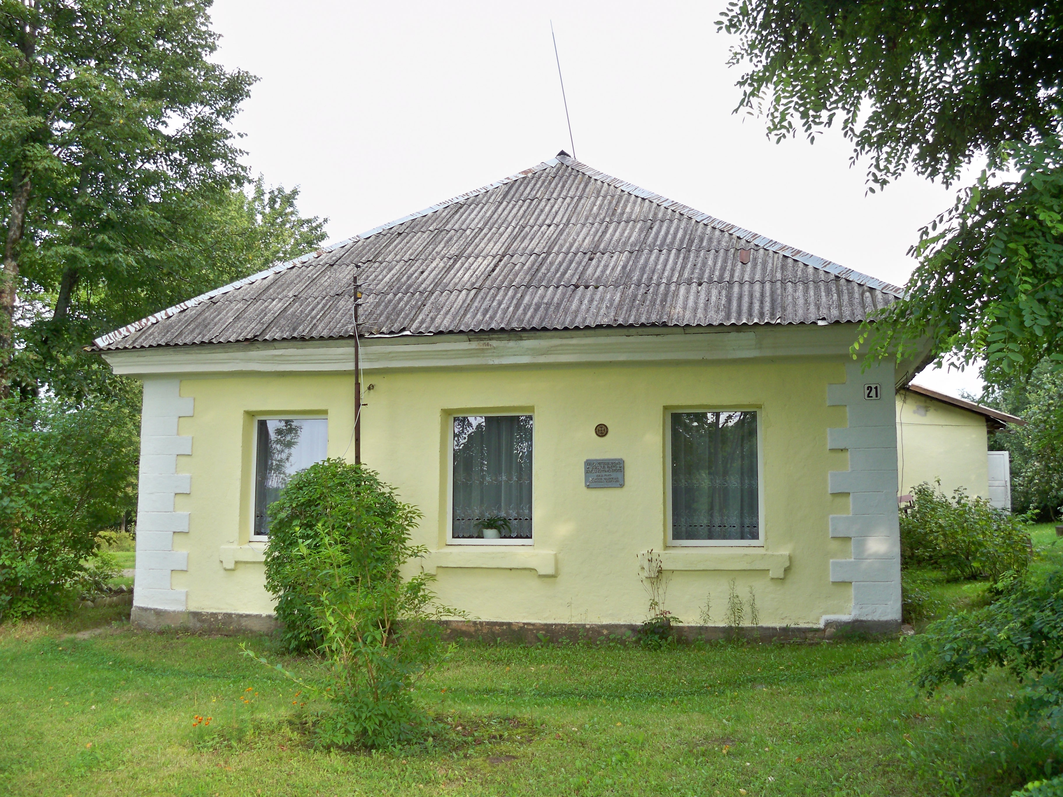 Degučiai (Zarasai) post-station.